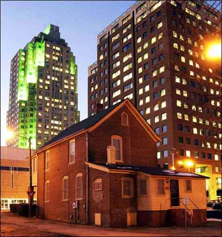 Pope House (foreground) — African American museum, in Raleigh, North Carolina. On the National Register of Historic Places